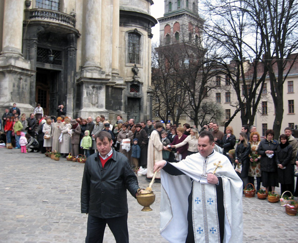 Ukrainian Uniate Easter ceremony in Lviv (Ukraine)